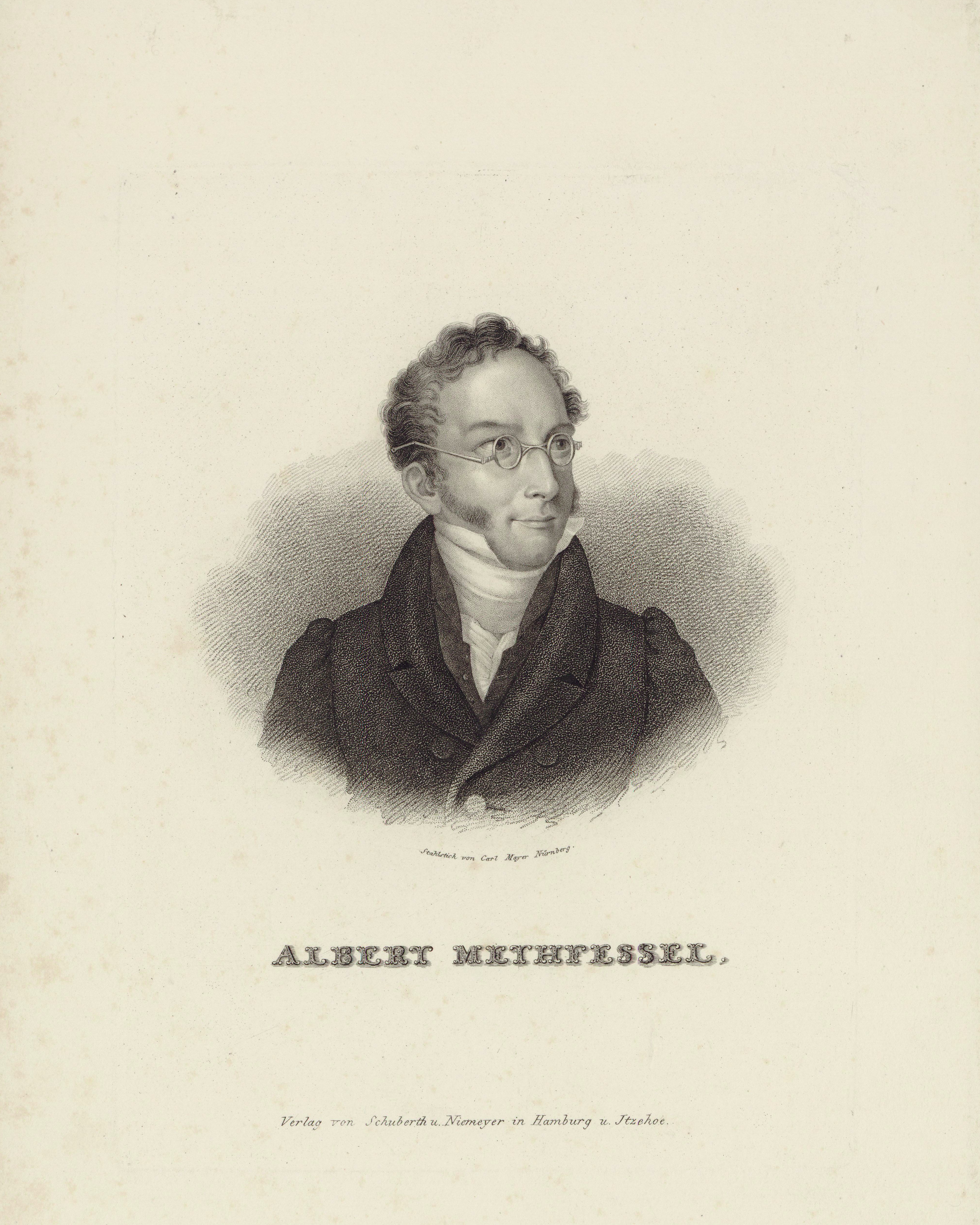 The german composer Albert Methfessel (1785-1869)